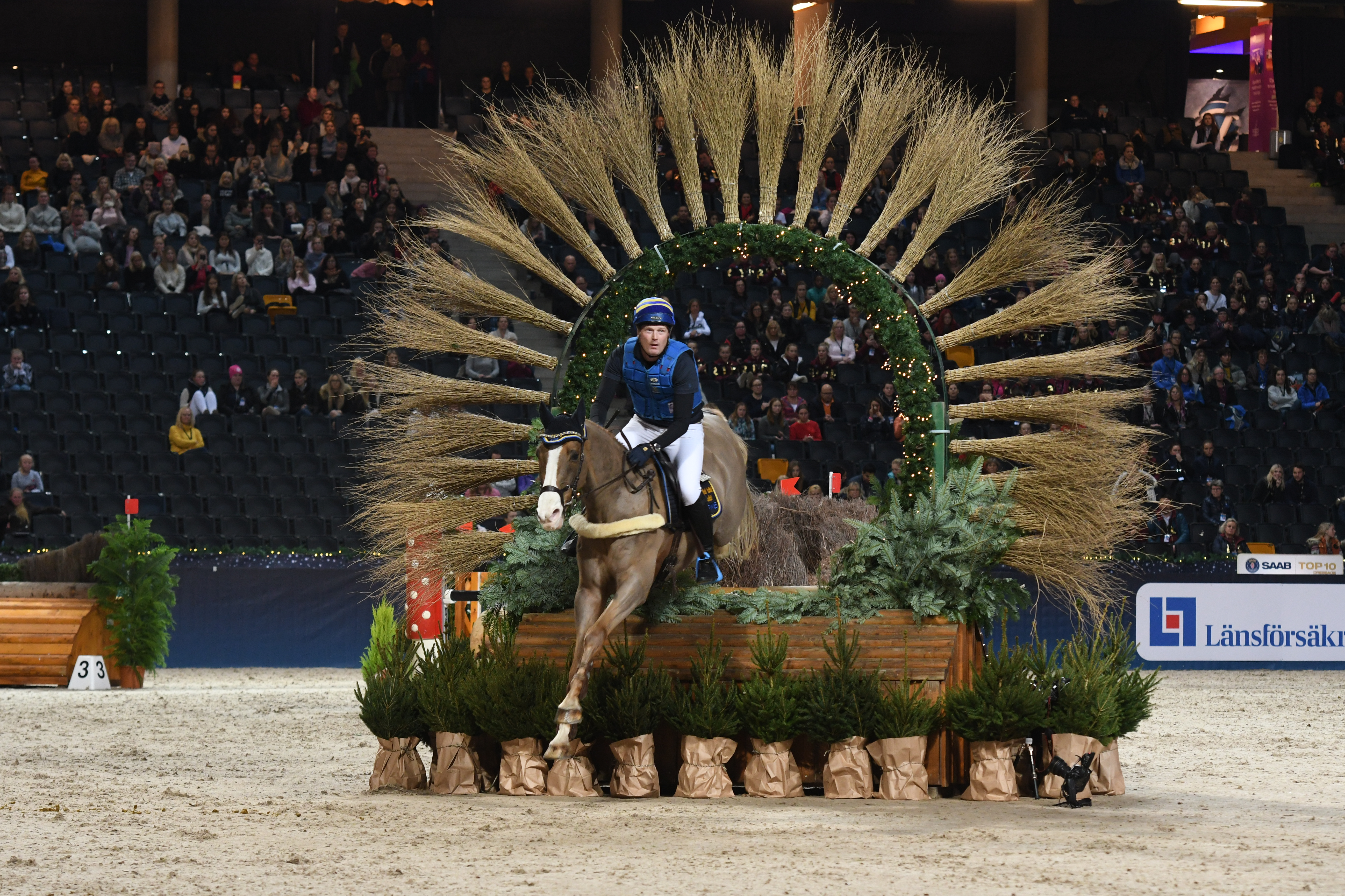 Niklas Lindbäck and Fairy Tale during indoor cross-country during Sweden International Horse Show 2018.